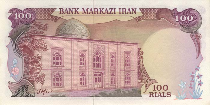 Banknote of second Pahlavi - 100 rials (rear) banknote of central bank of Iran.